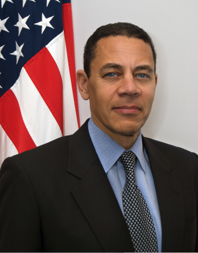 Official photo of U.S. Ambassador to the E.U. William Kennard